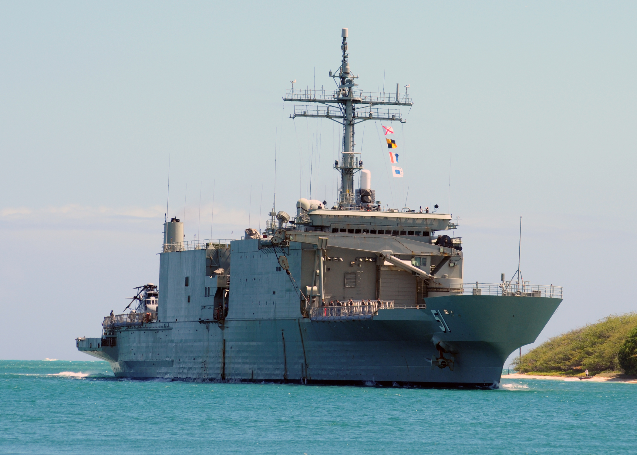 PEARL HARBOR (July 30, 2010) The Royal Australian Navy landing platform amphibious HMAS Kanimbla (L 51) returns to Joint Base Pearl Harbor-Hickam after participating in Rim of the Pacific (RIMPAC) 2010 exercises. RIMPAC is a biennial, multinational exercise designed to strengthen regional partnerships and improve multinational interoperability. (U.S. Navy photo by Mass Communication Specialist 2nd Class Jon Dasbach/Released)